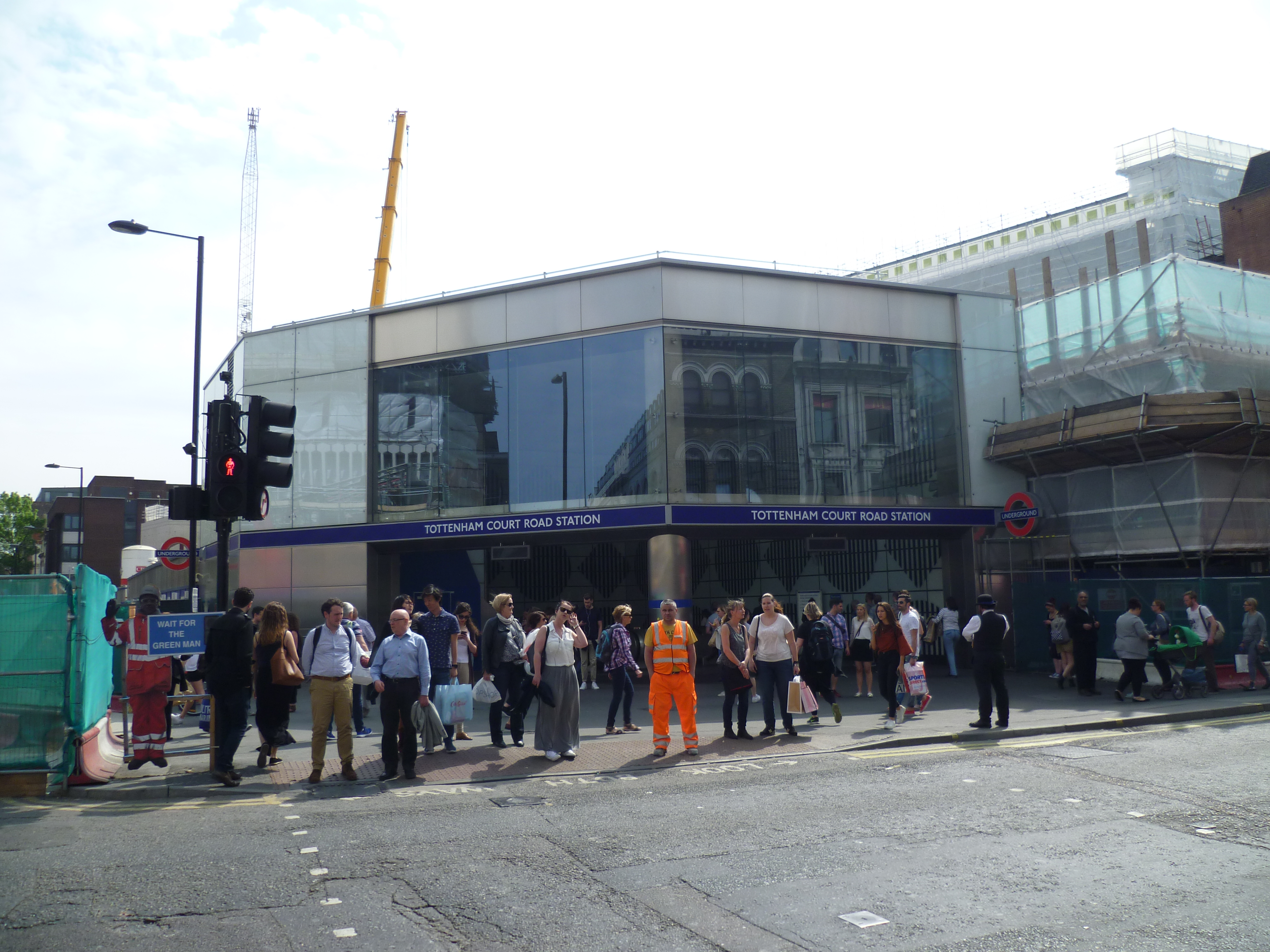 London